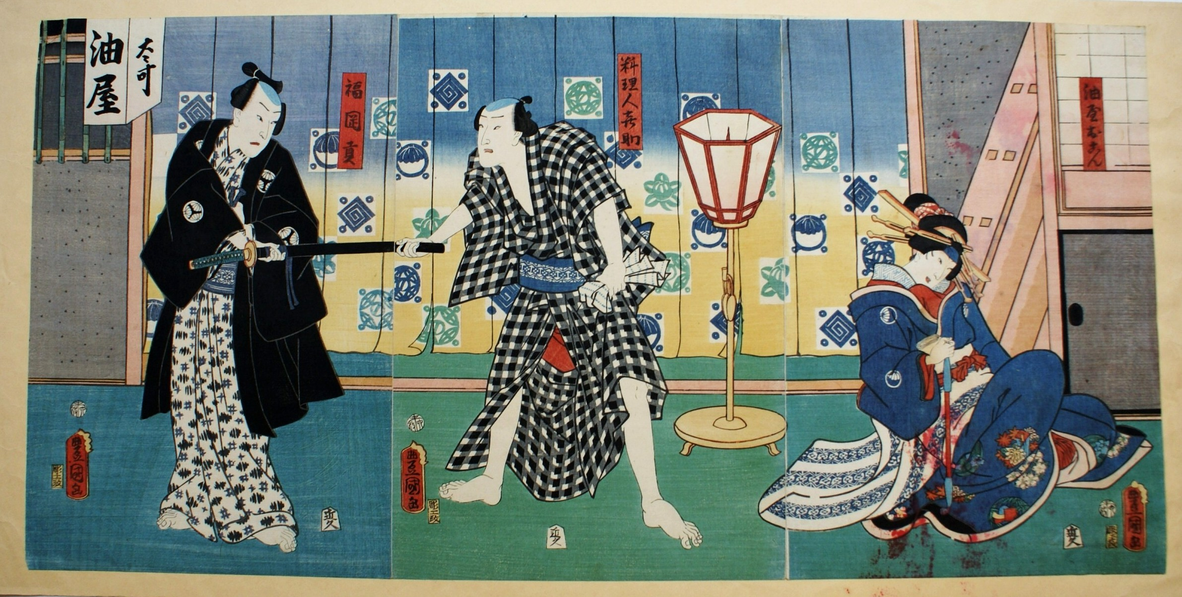 Japanese wood-print, Ukiyo-e. Kabuki "Toziawase Kabukino Ezôshi(Iseondo Koino Netaba)" by Utagawa Toyokuni III